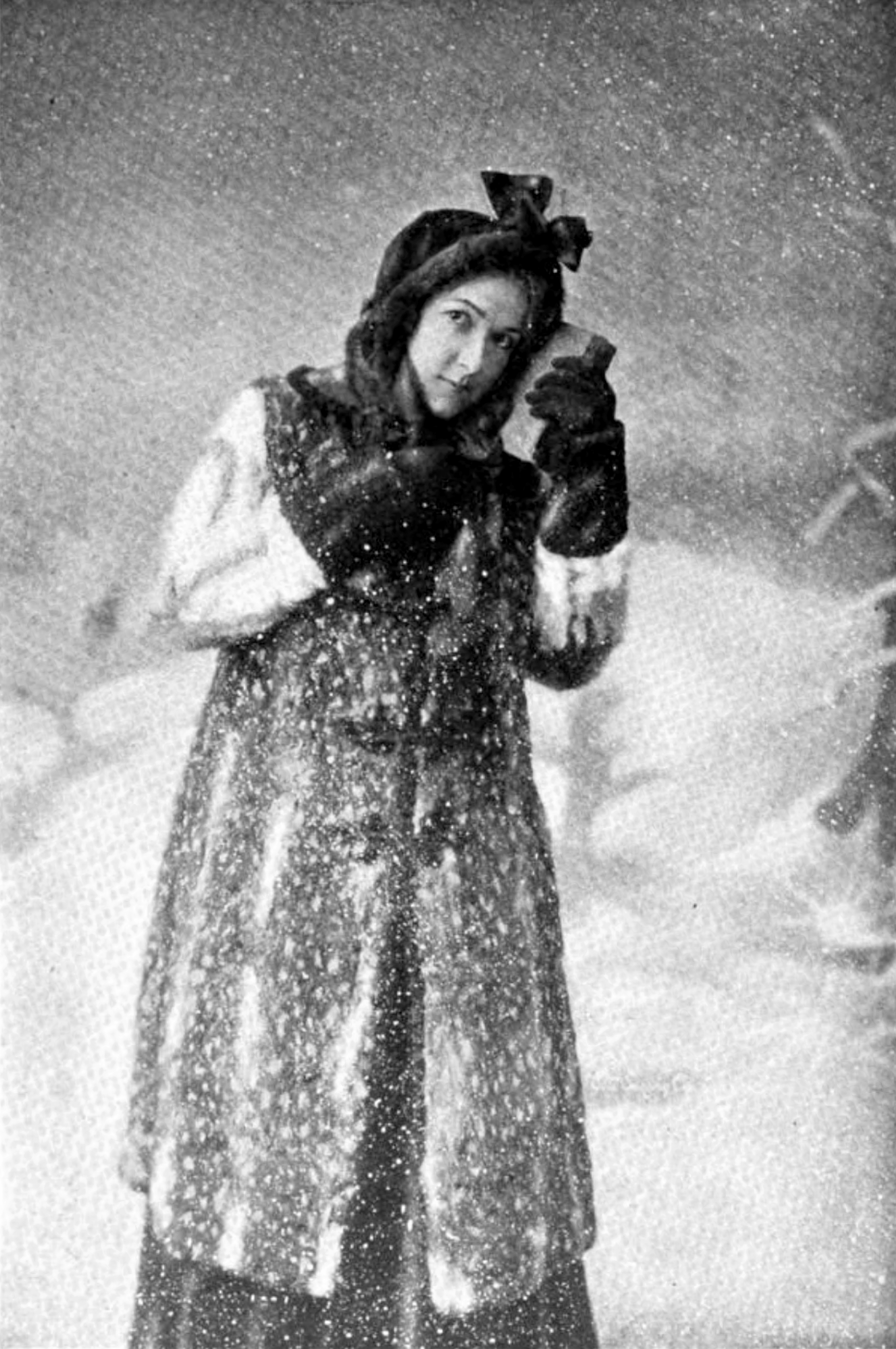 Photograph of Blanche Bates in the play The Girl of the Golden West